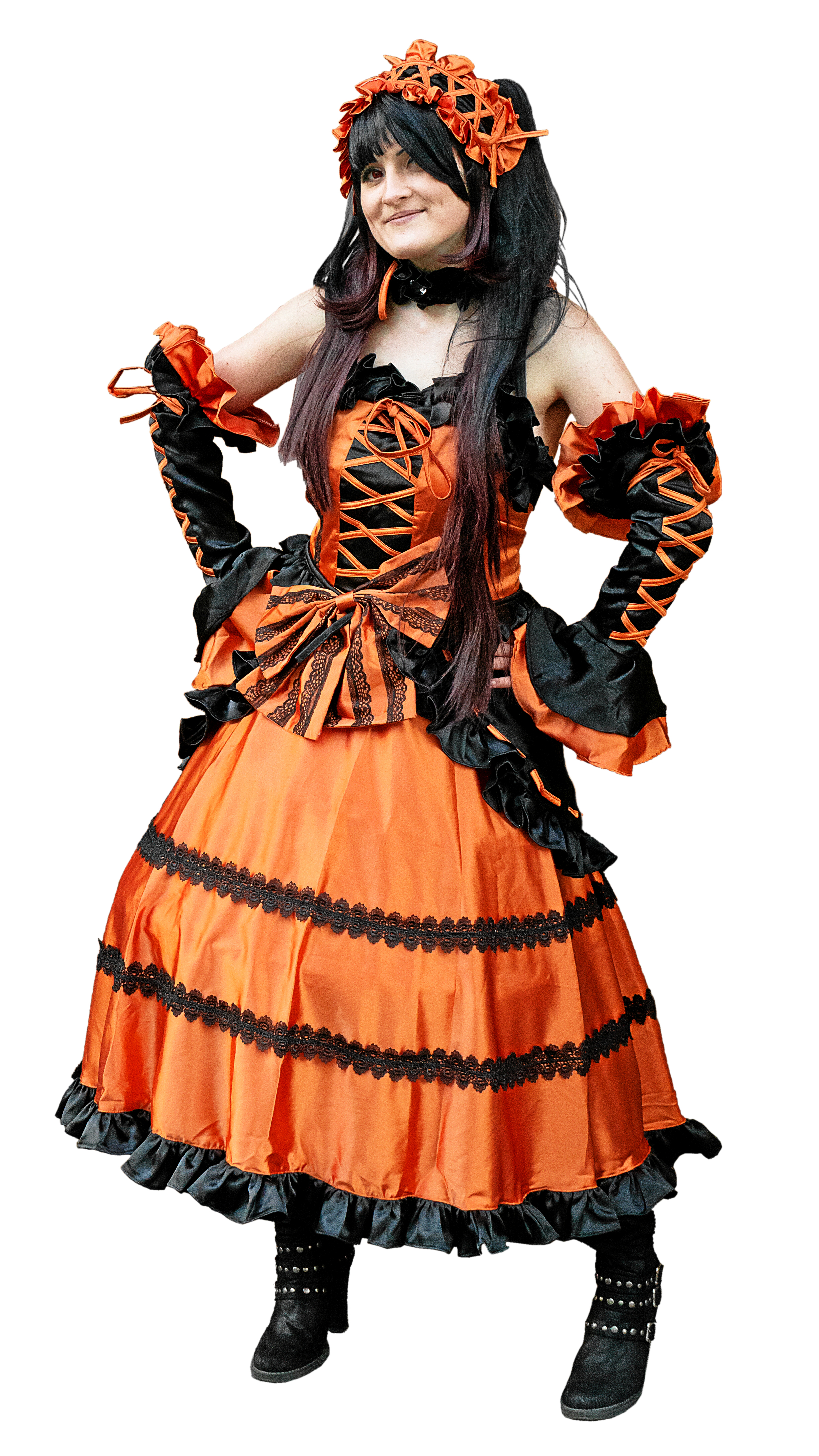 Cosplay of Tokisaki Kurumi from Date A Live in Augsburg.中文（台灣）: 德國奧格斯堡，《約會大作戰》時崎狂三cosplayer。